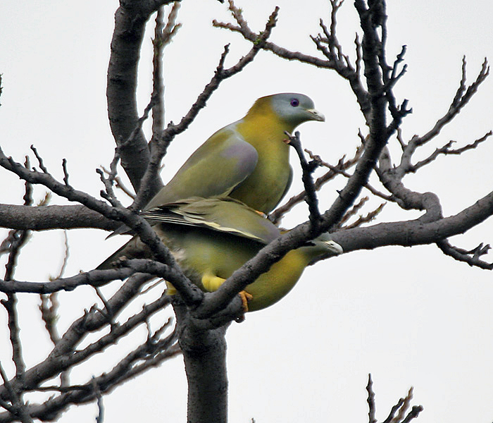 Yellow-footed Green Pigeons Treron phoenicoptera - chlorigaster race at Sultanpur National Park in Gurgaon District of Haryana, India.